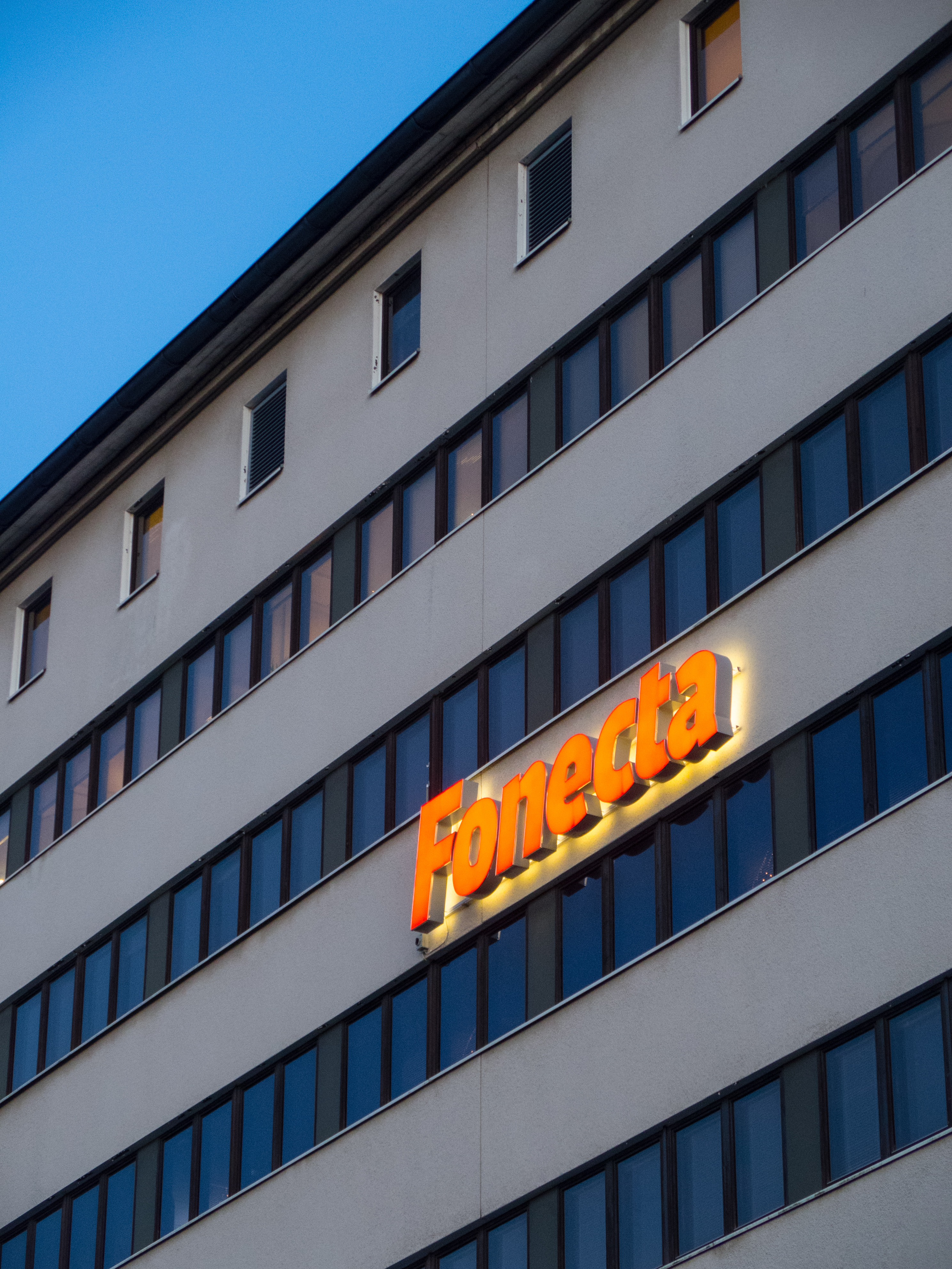 Fonecta corporate logo on a building in the industrial area of Turku IX district, Finland.